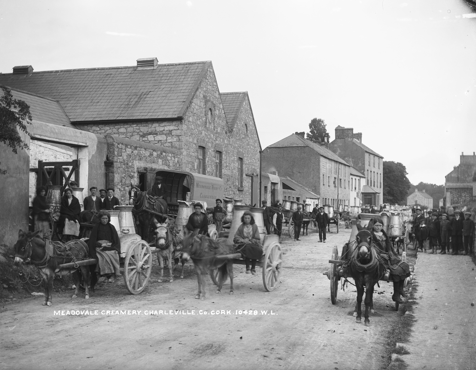 A traffic jam at the creamery in Charleville, Co. Cork. From this photo and other similar creamery ones, it looks as if it was woman's work to take the milk in to the creamery at this time... Photographer: Almost certainly Robert French of Lawrence Photographic Studios , Dublin Date: Between circa 1909 and 1912 NLI Ref.: L_ROY_10428